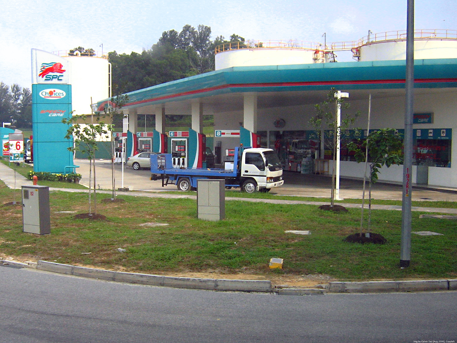 A Singapore Petroleum Company (SPC) petrol station at Jalan Buroh, Singapore. Img by Calvin Teo, August 2006